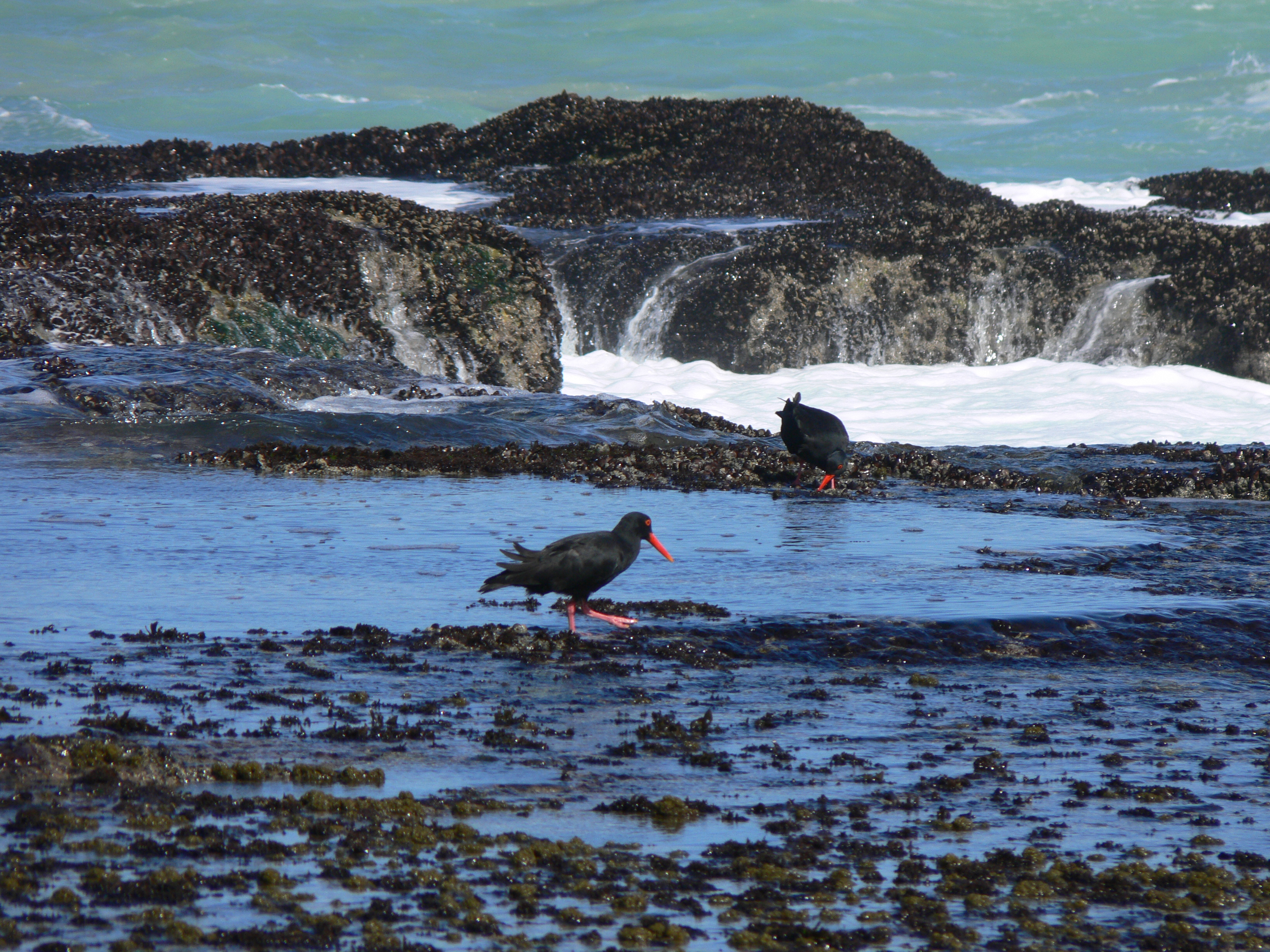 African Black Oystercatcher (Haematopus moquini), de Hoop Nature Reserve, Overberg, Western Cape, Southafrica